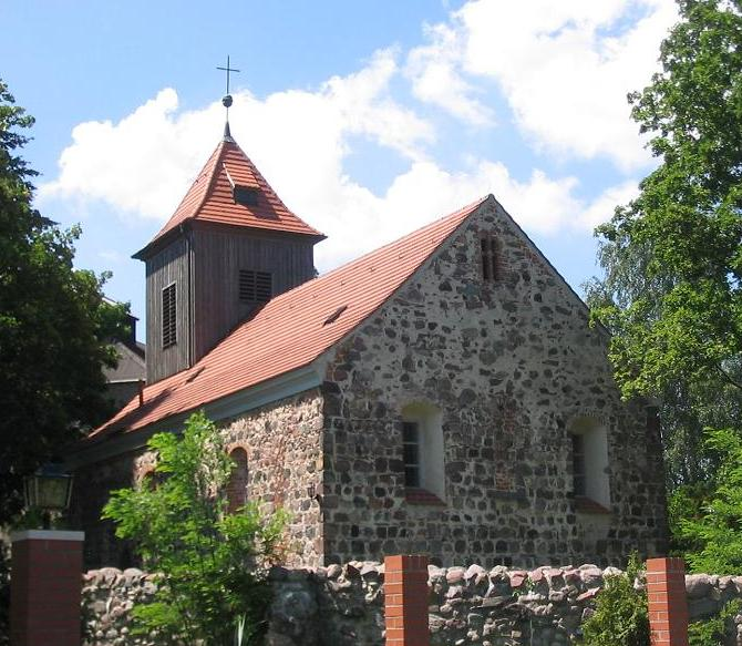 Stonechurch in Mehrow, built before 1327, todays timbered spire between 1787 and 1828. The village Mehrow is situated in the landscape Barnim and a part of the municipality Ahrensfelde in the district Barnim, state Brandenburg, Germany.